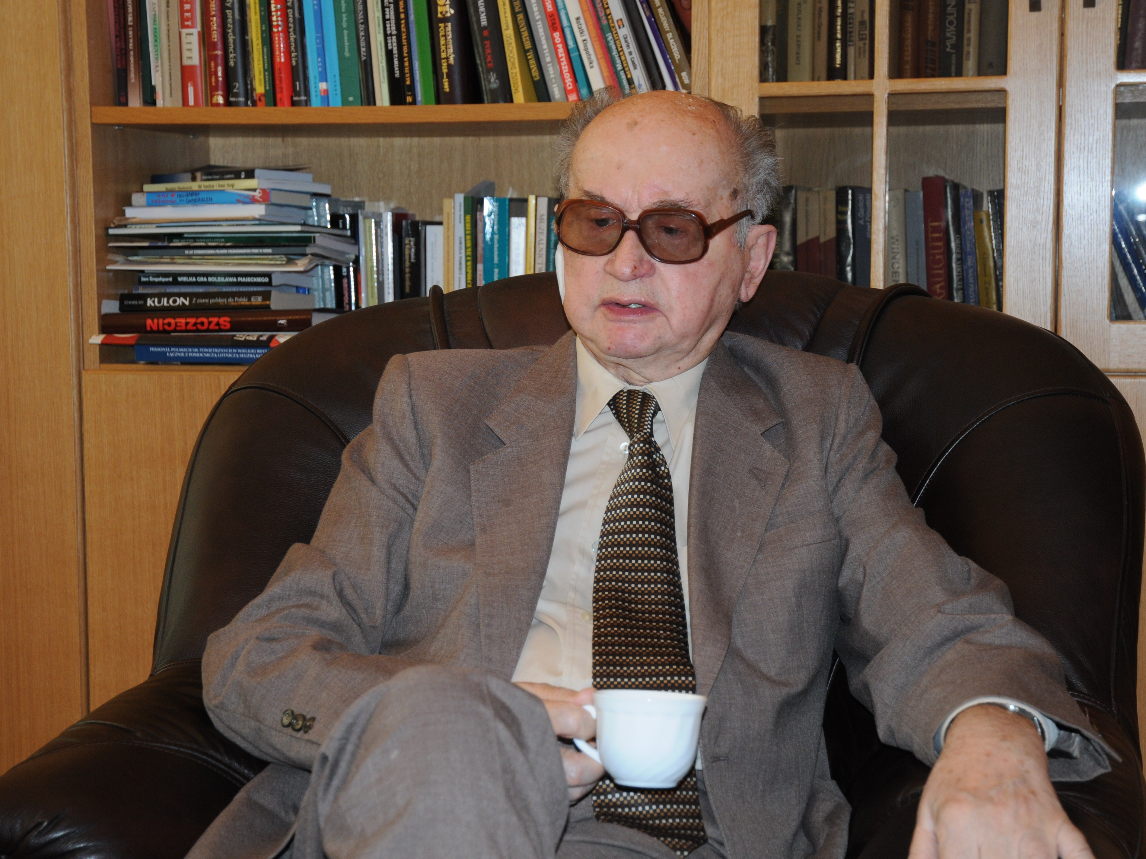 Wojciech Jaruzelski - a retired Polish military officer and Communist politician.